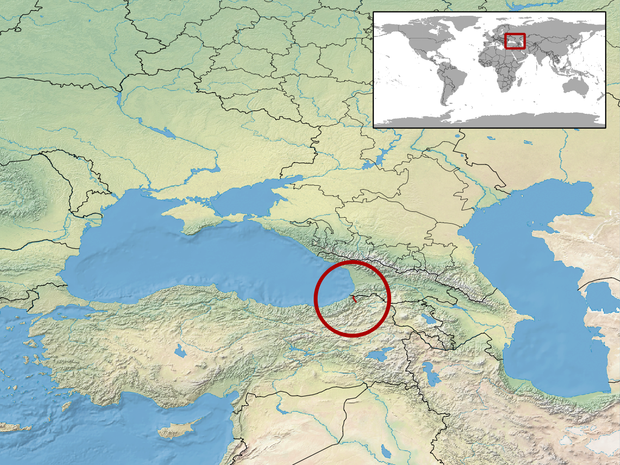 geographic distribution of Vipera pontica (Native: Turkey)